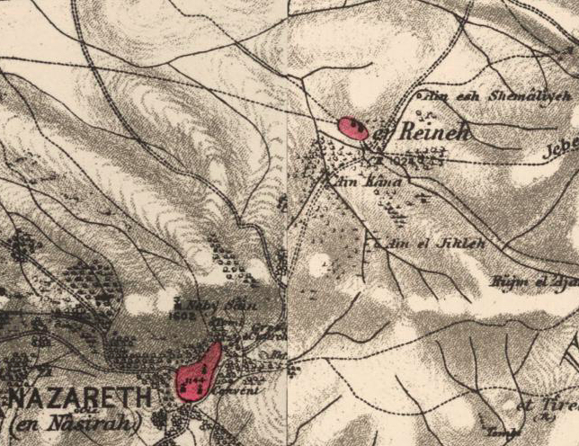 Map of Western Palestine in 26 sheets from the surveys conducted for the Committee of the Palestine Exploration Fund by Lietenanats C.R. Conder and H.H. Kitchener R.E. during the years 1872-1877. Photozincographed and Printed for the Committee ...at the Ordnance Survey Office Southampton. OCLC 234168442. Note I: Marked as copyrighted by Jewish National & University Library, which is not grounded. Note II: This is a collection 72dpi images. For the map in higher resolution, check either David Rumsey Map Collection, Israel Antiquities Authority, The Digital Archaeological Atlas of the Holy Land, Amud Anan (Hebrew), or a CD from BiblePlaces.